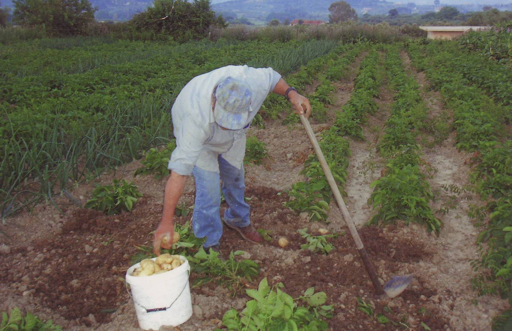 Farmer harvesting a potato crop. Kefalonia, Greece.